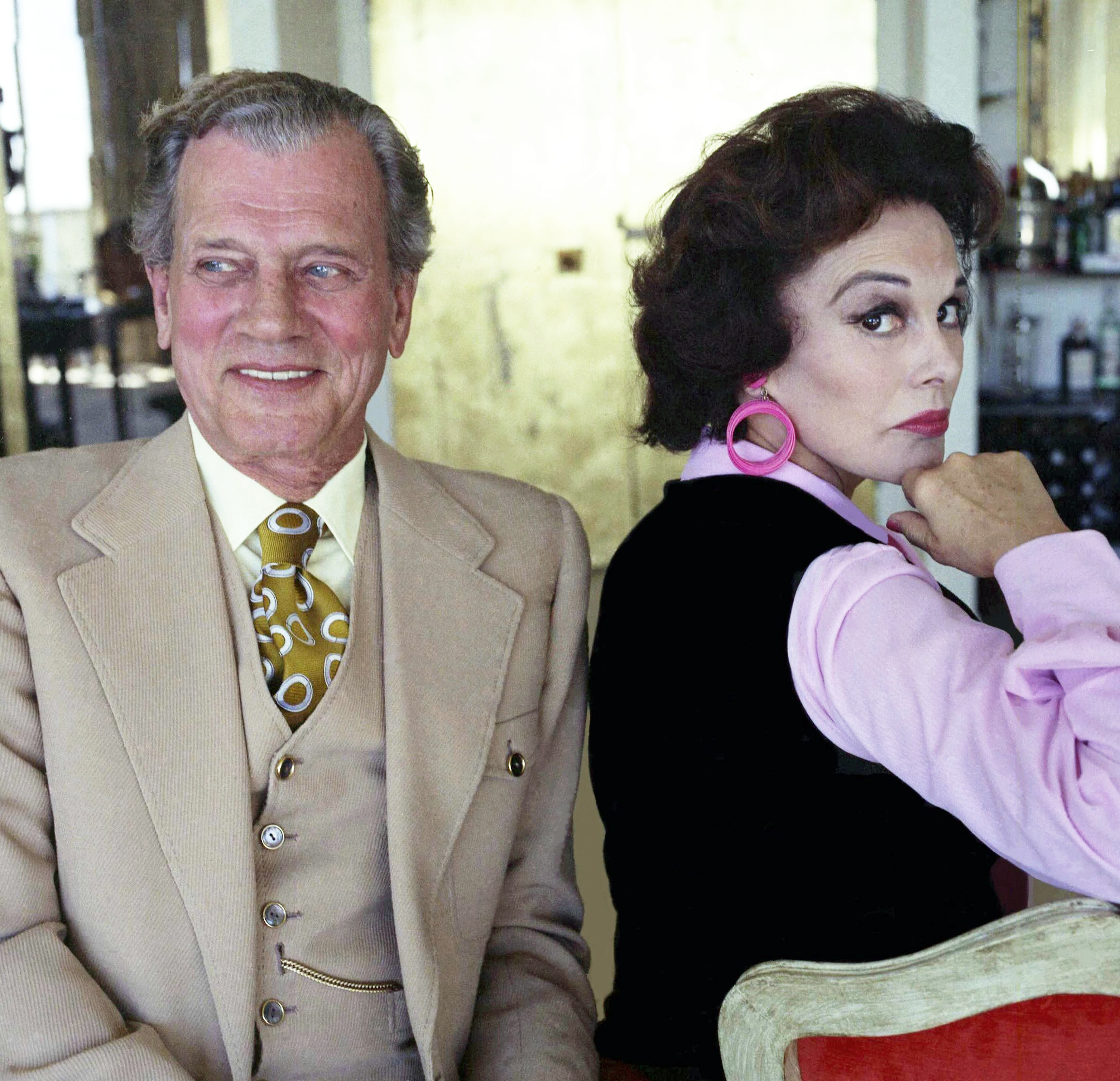 portrait of Joseph Cotten & Patricia Medina